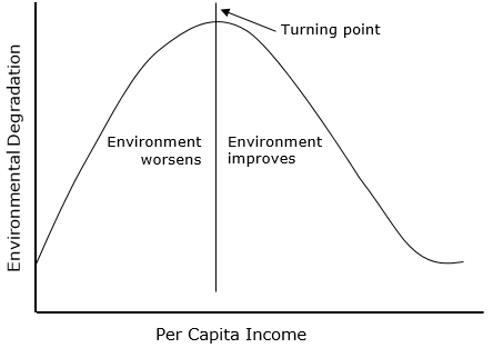 The modified Kuznets curve, which represents the application of the Kuznets curve in Environmental Studies.